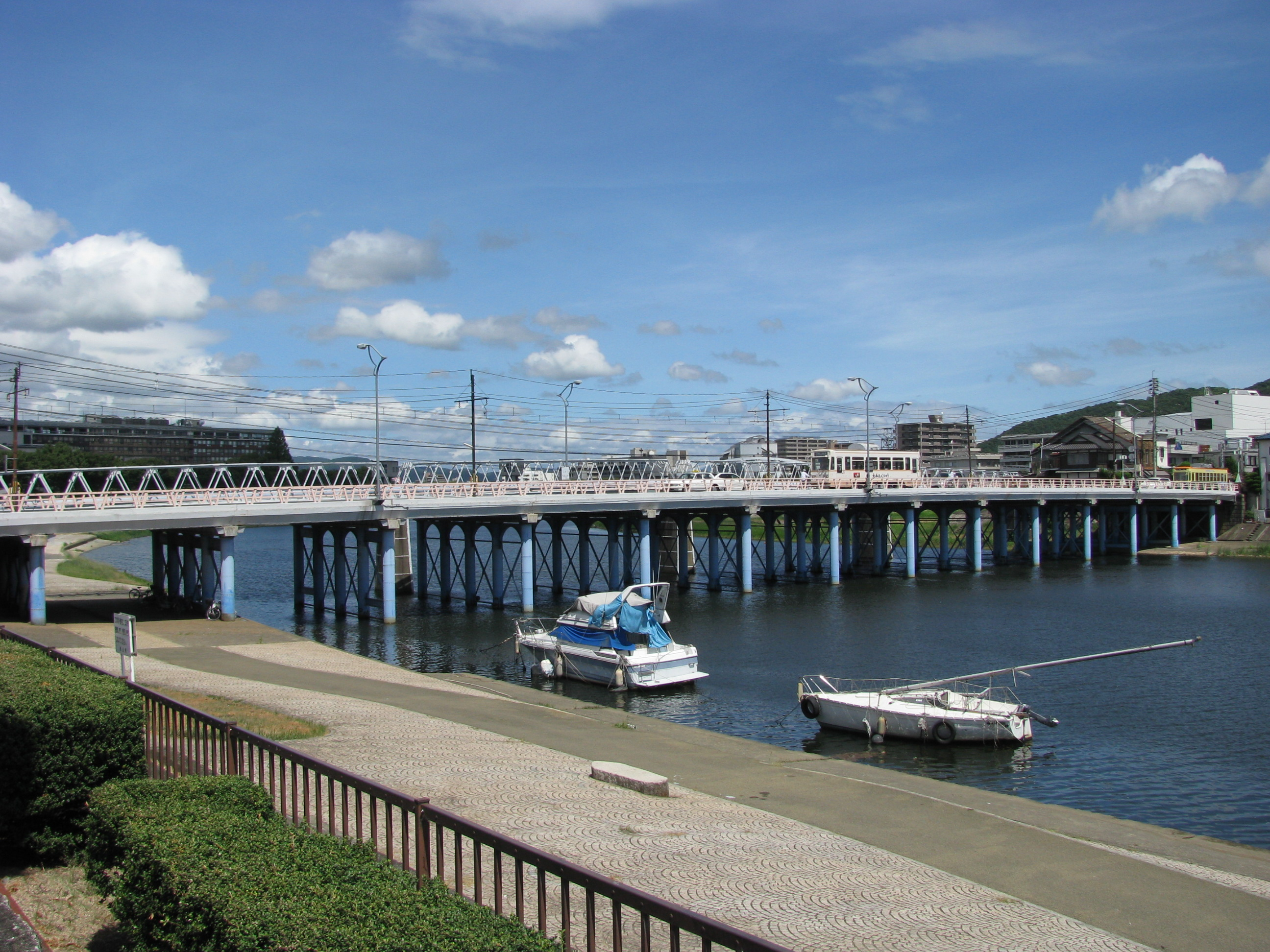 The Kyō-bashi of Okayama Prefectural Route 28 with Okayama Electric Tramway. This place is Kita-ku, Okayama, Okayama Prefecture, Japan.